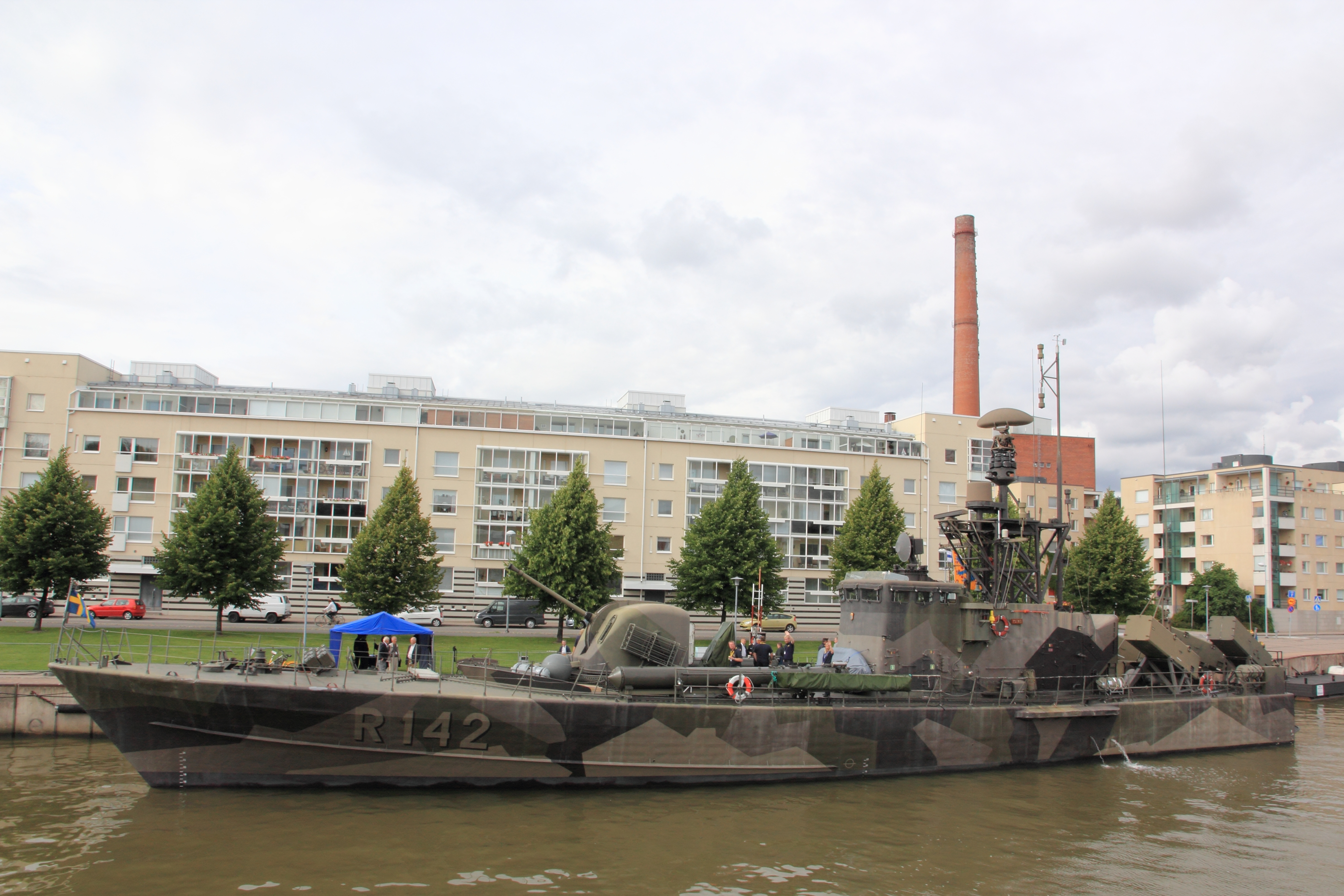 Swedish Veteranflottiljen museum missileboat Ystad (R142) photographed while visiting Forum Marinum maritime museum in Turku.